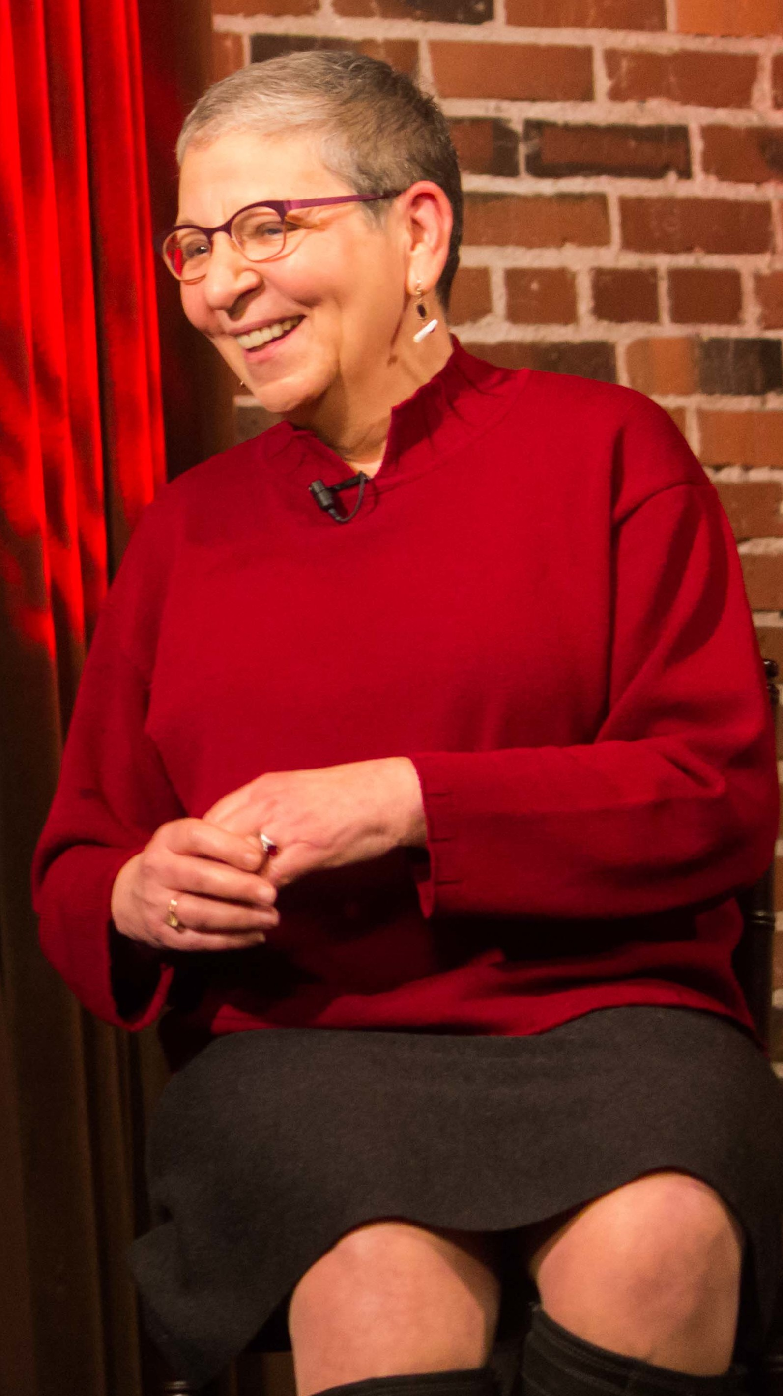 Civic Cocktail on the Seattle Channel, February 2016. Host Joni Balter interviews Nancy Pearl.